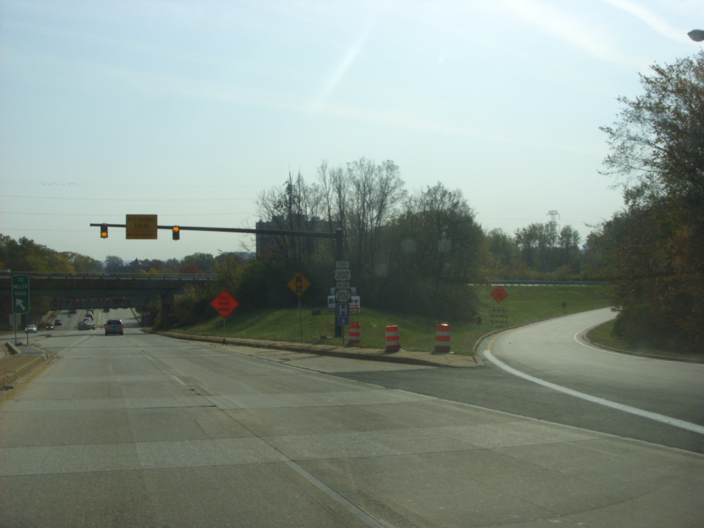 The beginning of southbound Delaware Route 202 (Concord Avenue) at Interstate 95/U.S. Route 202 in Wilmington. U.S. Route 202 is incorrectly signed as terminating here.